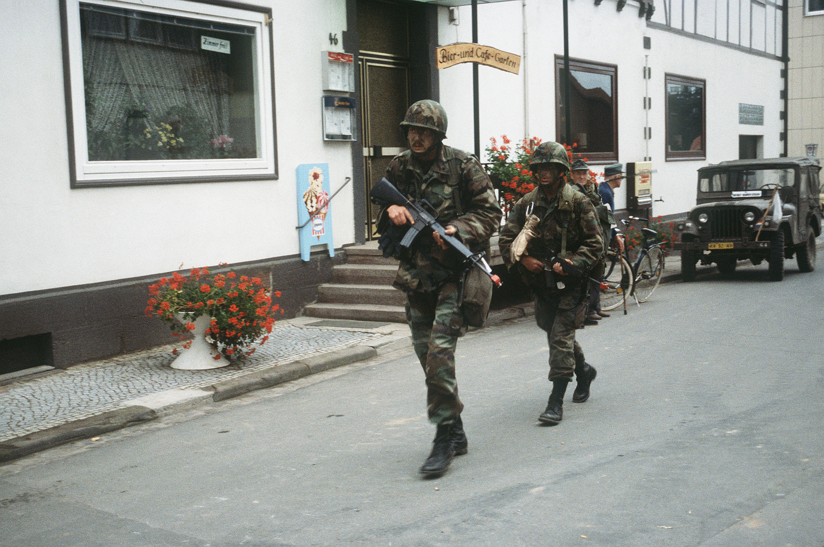 Members of the 2nd Battalion, 42nd Infantry, conduct a reconnaissance patrol through town during SPEARPOINT '84, a phase of Exercise REFORGER '84 in Lauenberg, West Germany.